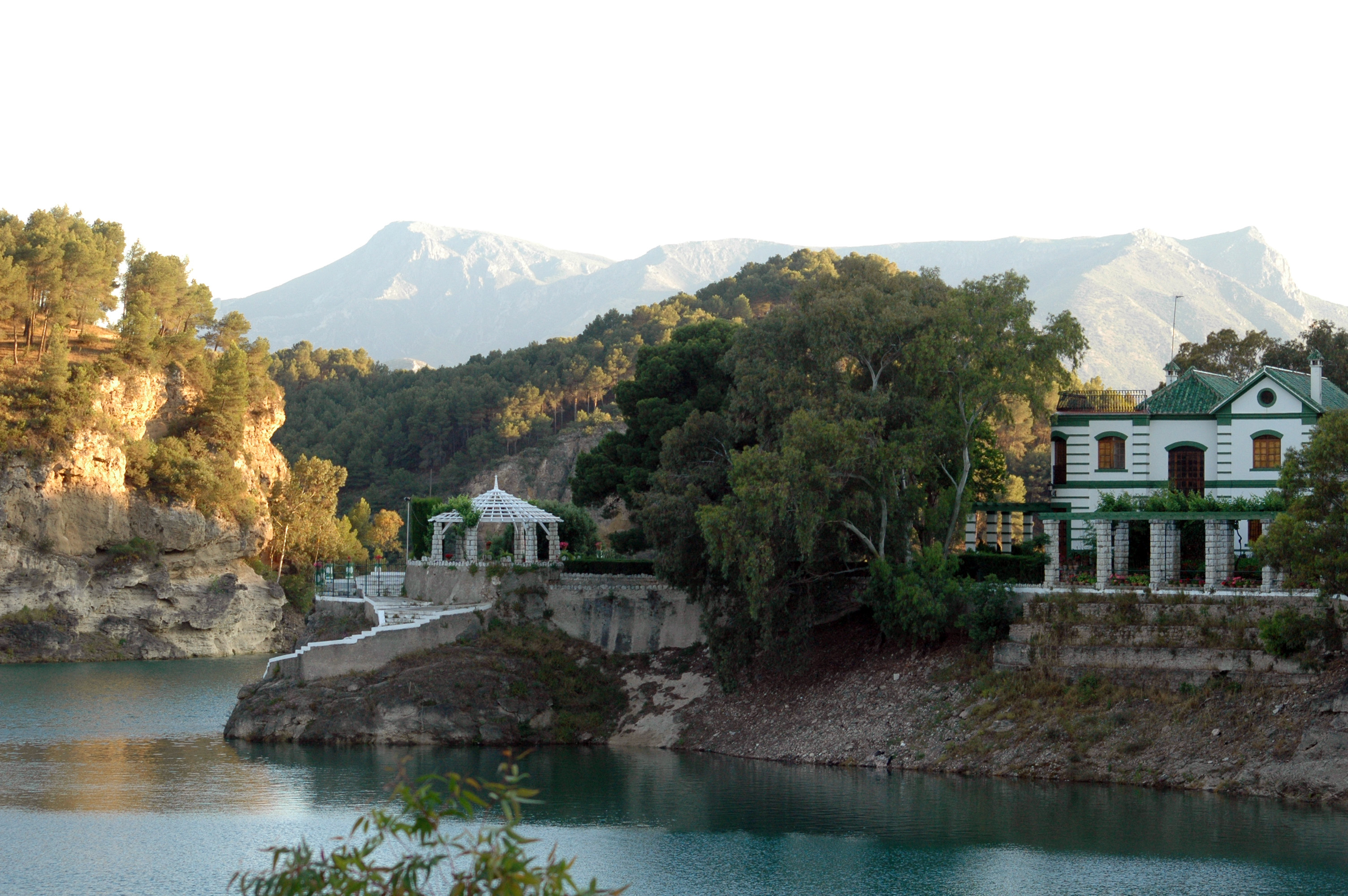 Casa del Ingeniero. Built by Rafael Benjumea.